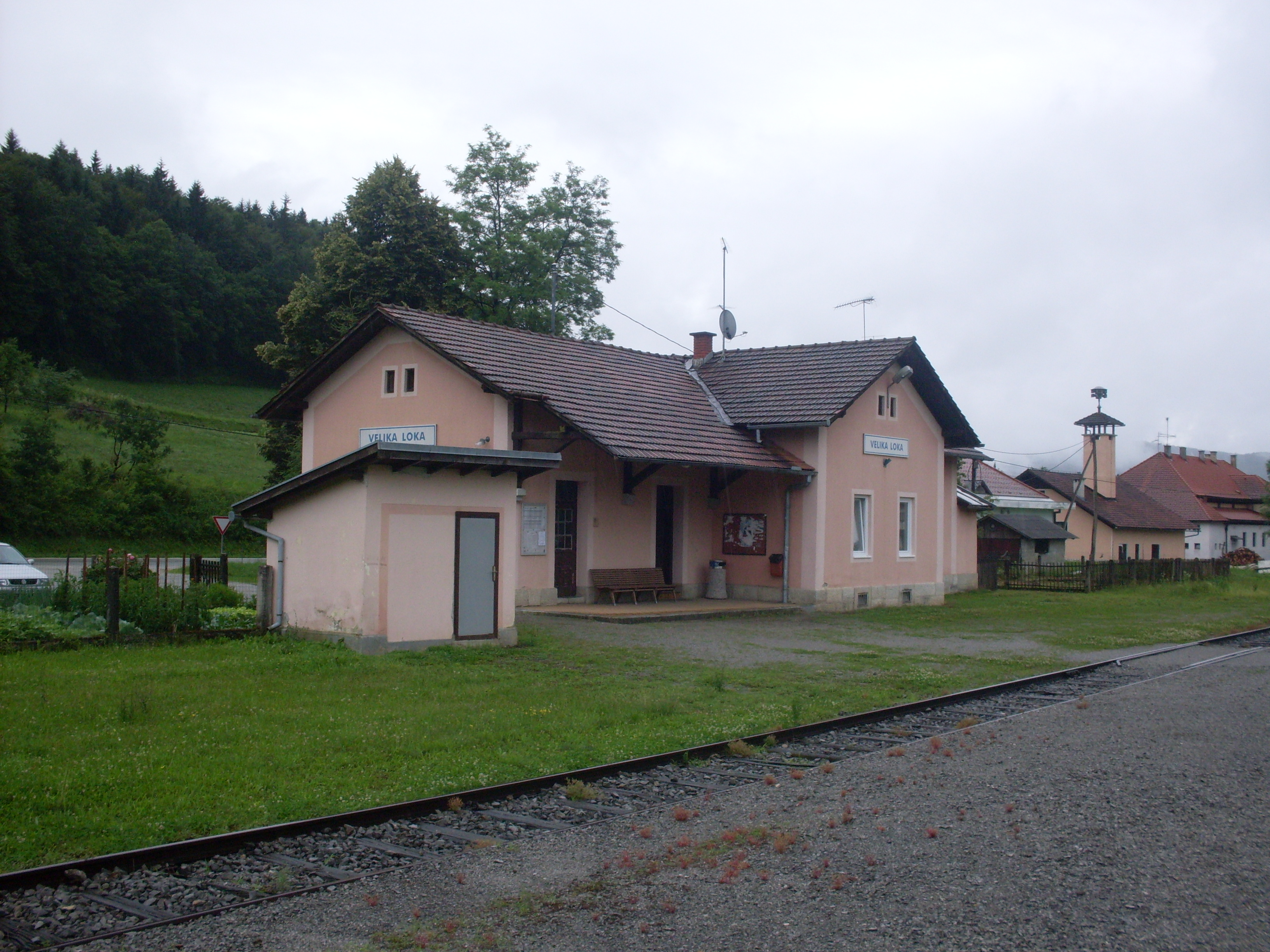 Railway halt Velika Loka